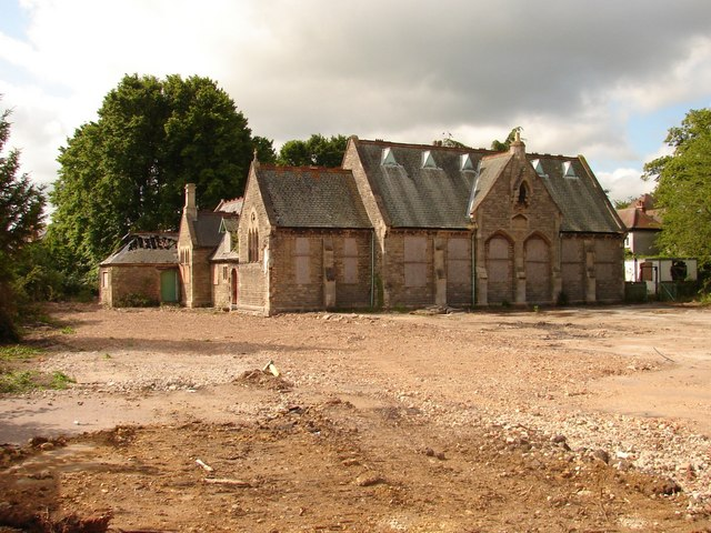 Former St Botolph's Primary School Shortly after its closure and relocation to a modern school further west, the school was vandalised and set alight, remaining in a semi-derelict condition for a number of years. The temporary accommodation near the front has since been removed and the playground grubbed up, so something new may be happening here very soon.